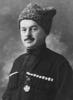 Photograph of Tapa Tchermoeff as prime minister of the Mountainous Republic of the Northern Caucasus